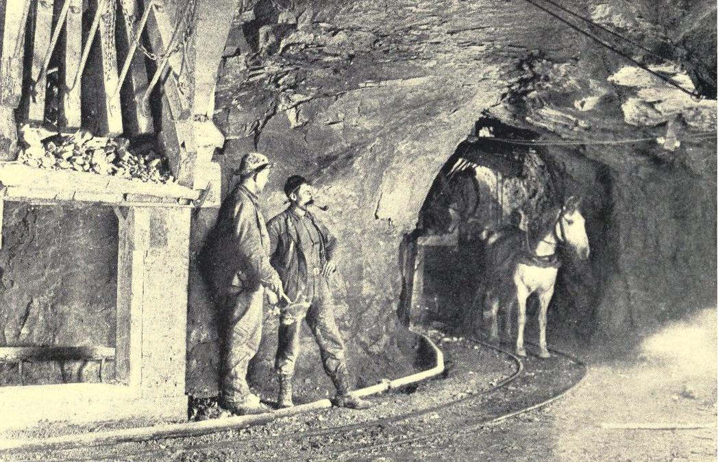 Underground in the Treadwell mine, Alaska, 1908. A horse pulling an ore cart comes around a turn in a tunnel.